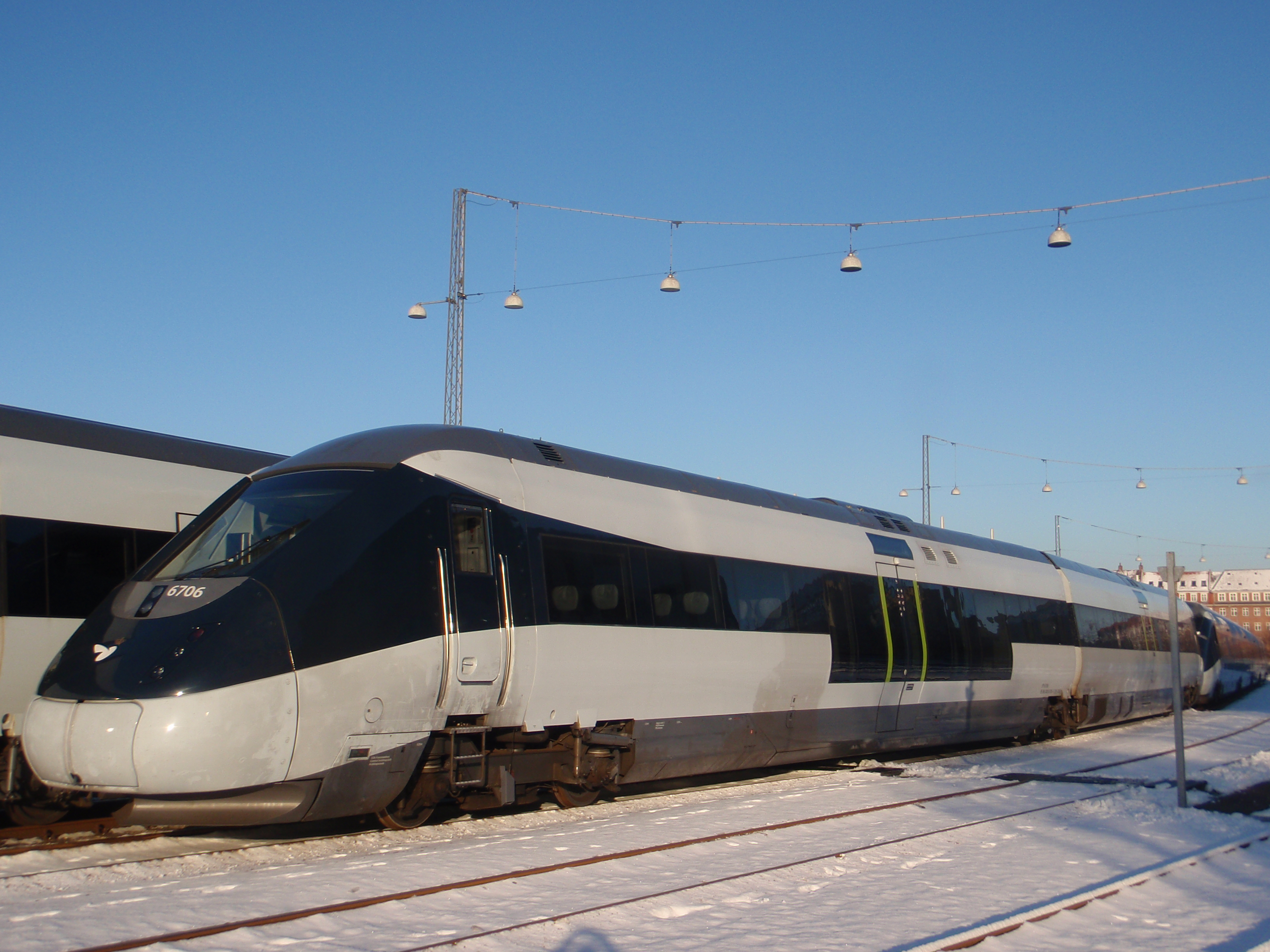 DSB IC2 unit 6706 in Aarhus